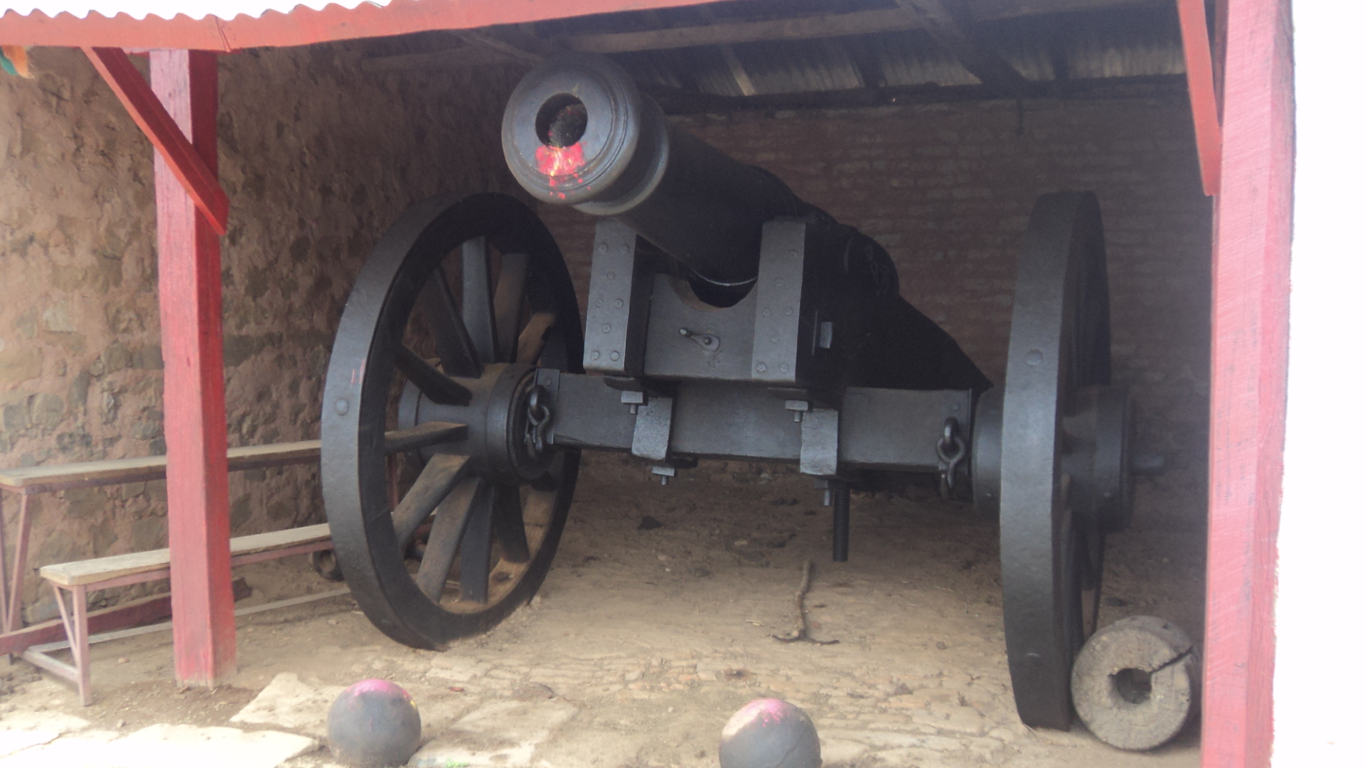 A historic cannon from Makwanpur gadhi (fort) in Nepal. (Nepali:काली तोप)